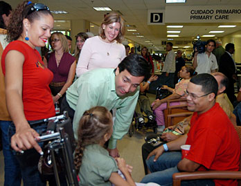 Resident Commissioner Luis Fortuño (in green) and his wife Luce Vela (back in light beige) visit the ambulatory clinic for children with orthopedic conditions hosted by Shriners Hospital doctors at the Veterans Hospital.